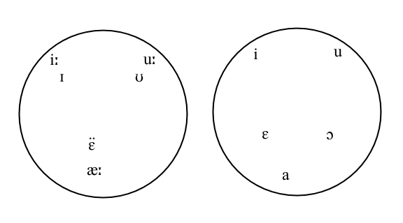 This is one of two images for showing the difference between phonology and phonetics. The other image is Image:Phonological_Diagram_of_modern_Arabic_and_Hebrew_vowels.png The circles contain the vowel sounds of Standard Arabic (left) and Israeli Hebrew (right), in the International Phonetic Alphabet. Those are the sounds that must be produced for an acceptable pronunciation, more respected by the native speakers, even if not necessary for comprehension. In the actual sounds, in contradistinction to the phonemes, modern Arabic and Hebrew share none between them. The vowels of modern Arabic are more like those of English and German, while those of modern Hebrew are more like those of Italian and Spanish, therefore natives of one language who have not mastered the pronunciation of the other are easy to spot by native speakers of that other, even if they manage to make the phonological distinctions that enable comprehension of their words. I made the images with the GIMP, version 2.2.8. An SVG version would obviously be better, but I am not sure MediaWiki supports the correct display of SVG with Unicode characters. If you know, by all means create SVG versions to replace these PNG images.